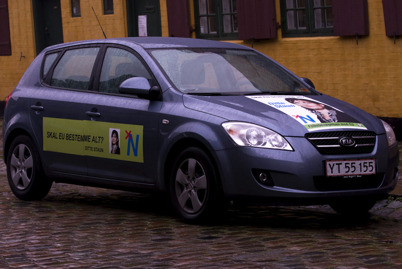 Party-vehicle for Ditte Staun from People's Movement against the EU.